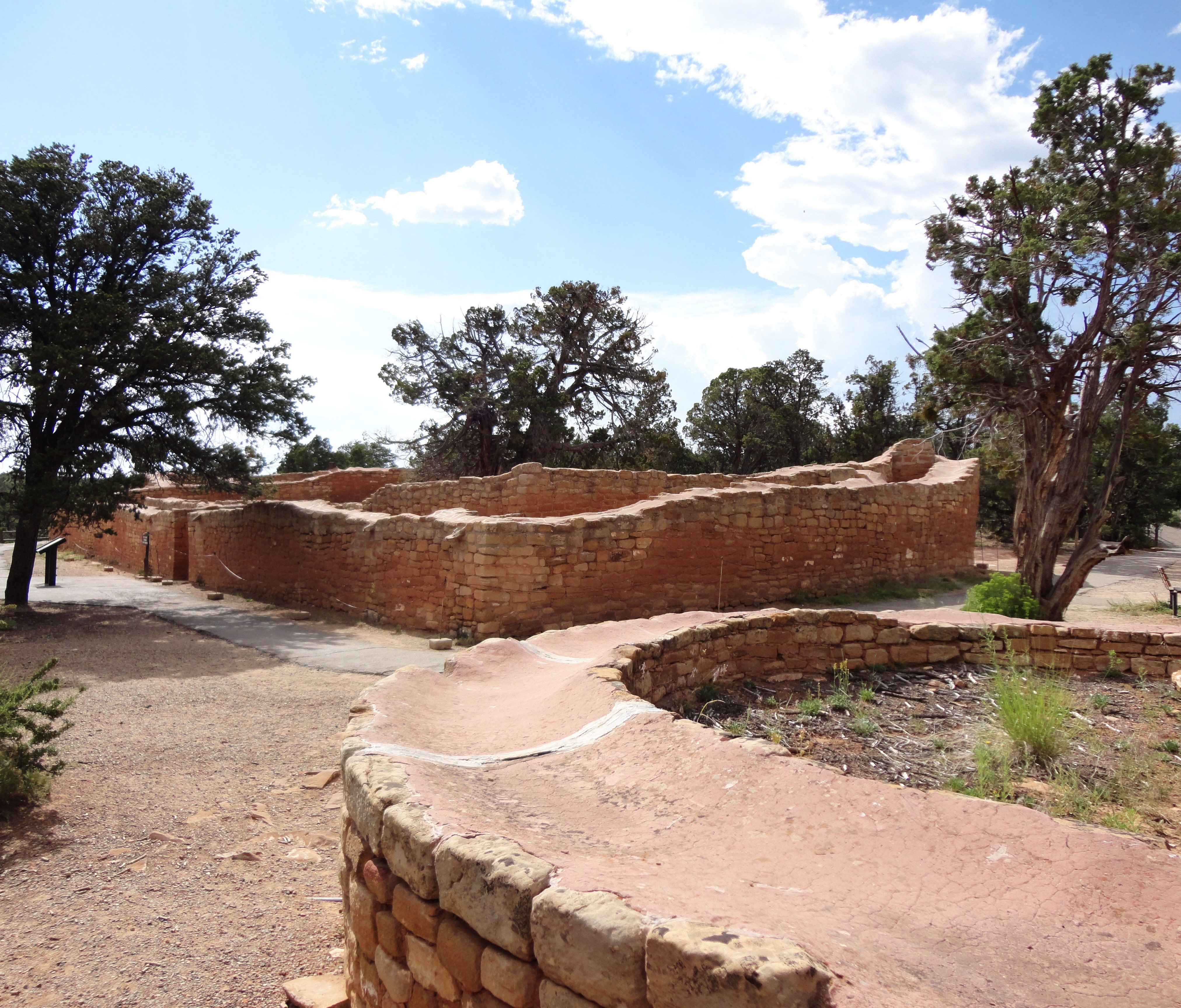 The Sun Temple at Mesa Verde National Park, Colorado.